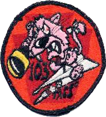 103d Tactical Air Support Squadron - Emblem